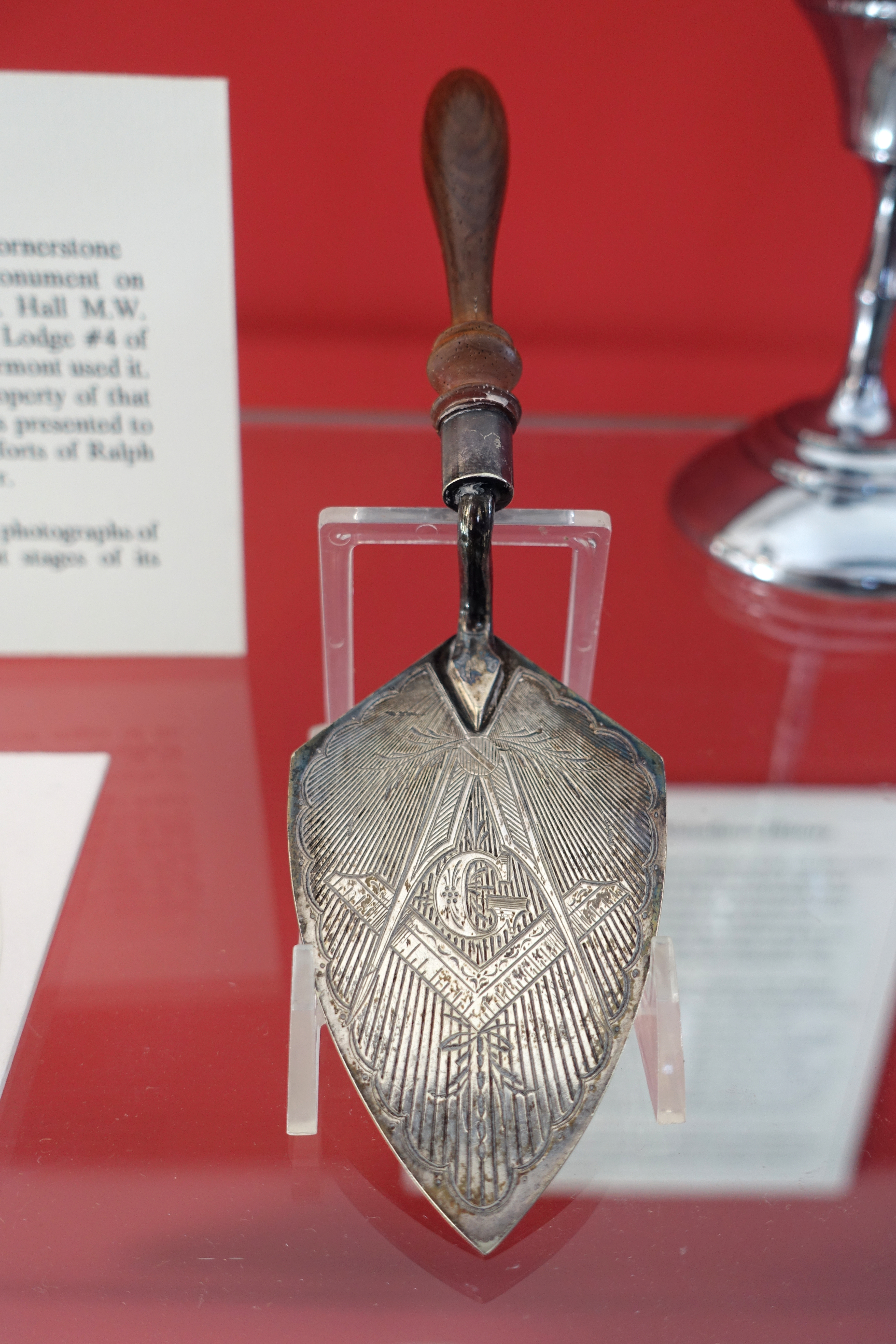 Exhibit in the Bennington Museum - Bennington, Vermont, USA. This work is in the public domain because the artist died more than 70 years ago.